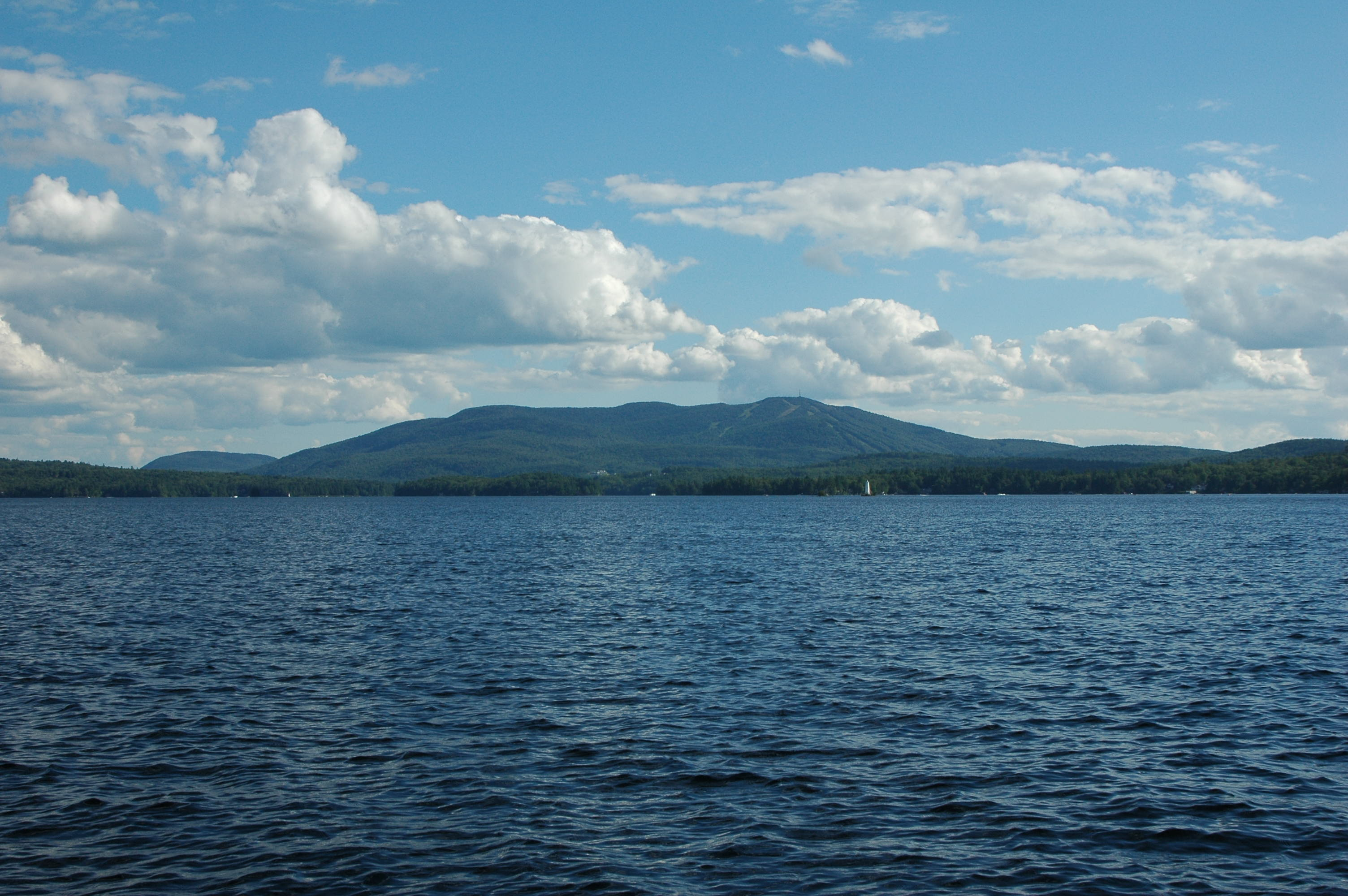 Mount Sunapee